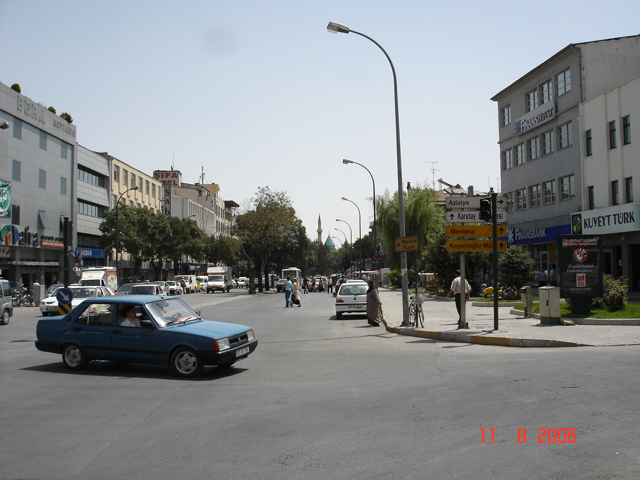 City of Konya, Turkey.